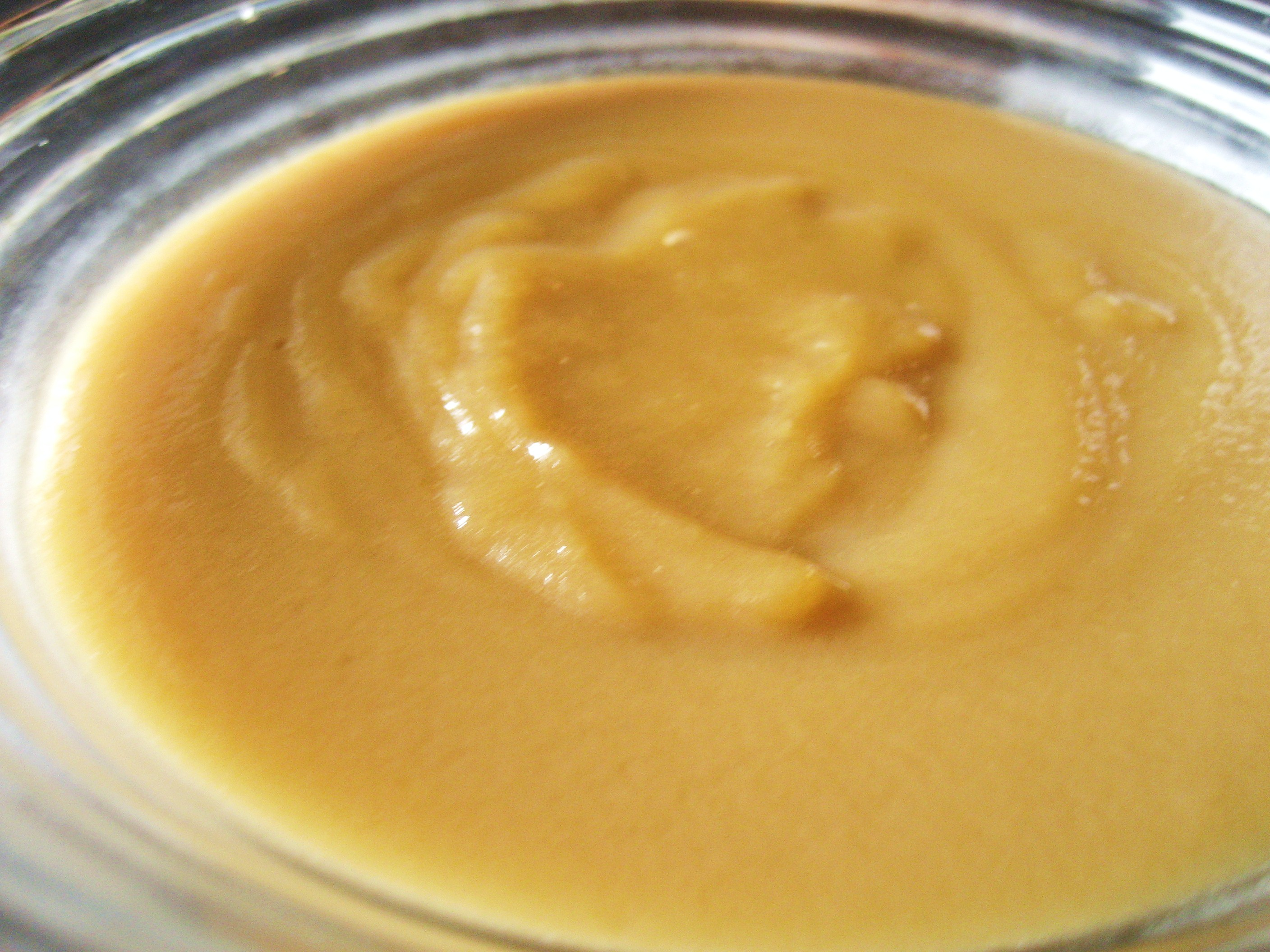 Recipe from David Leibovitz. Not my favorite effort. I preferred this version at Serious Eats.